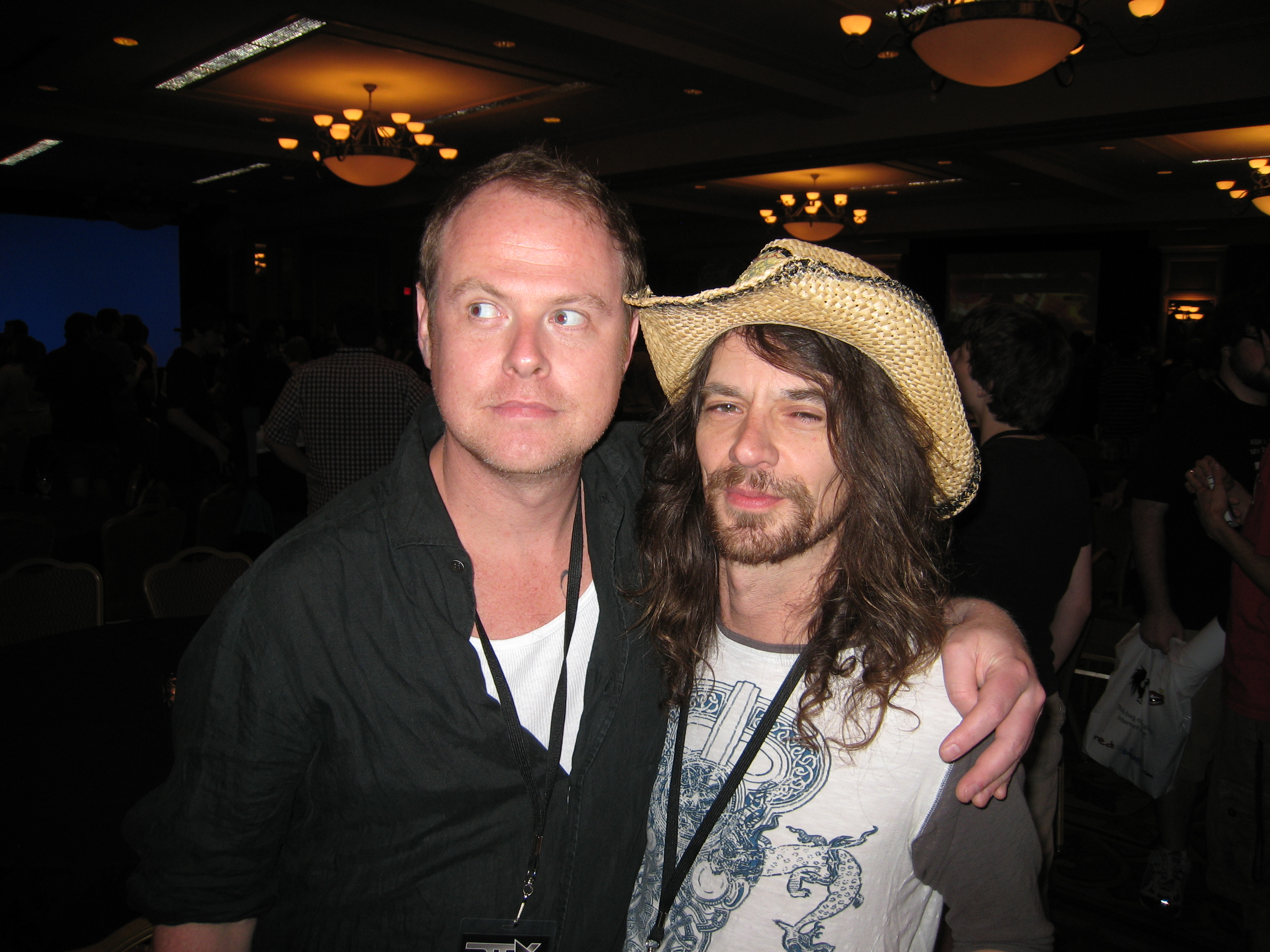 Nico Audy-Rowland and Jeff Williams, RoosterTeeth Music